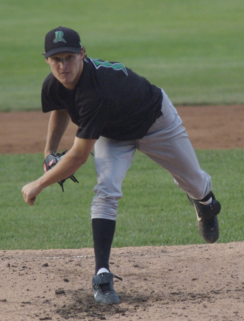 Travis Wood